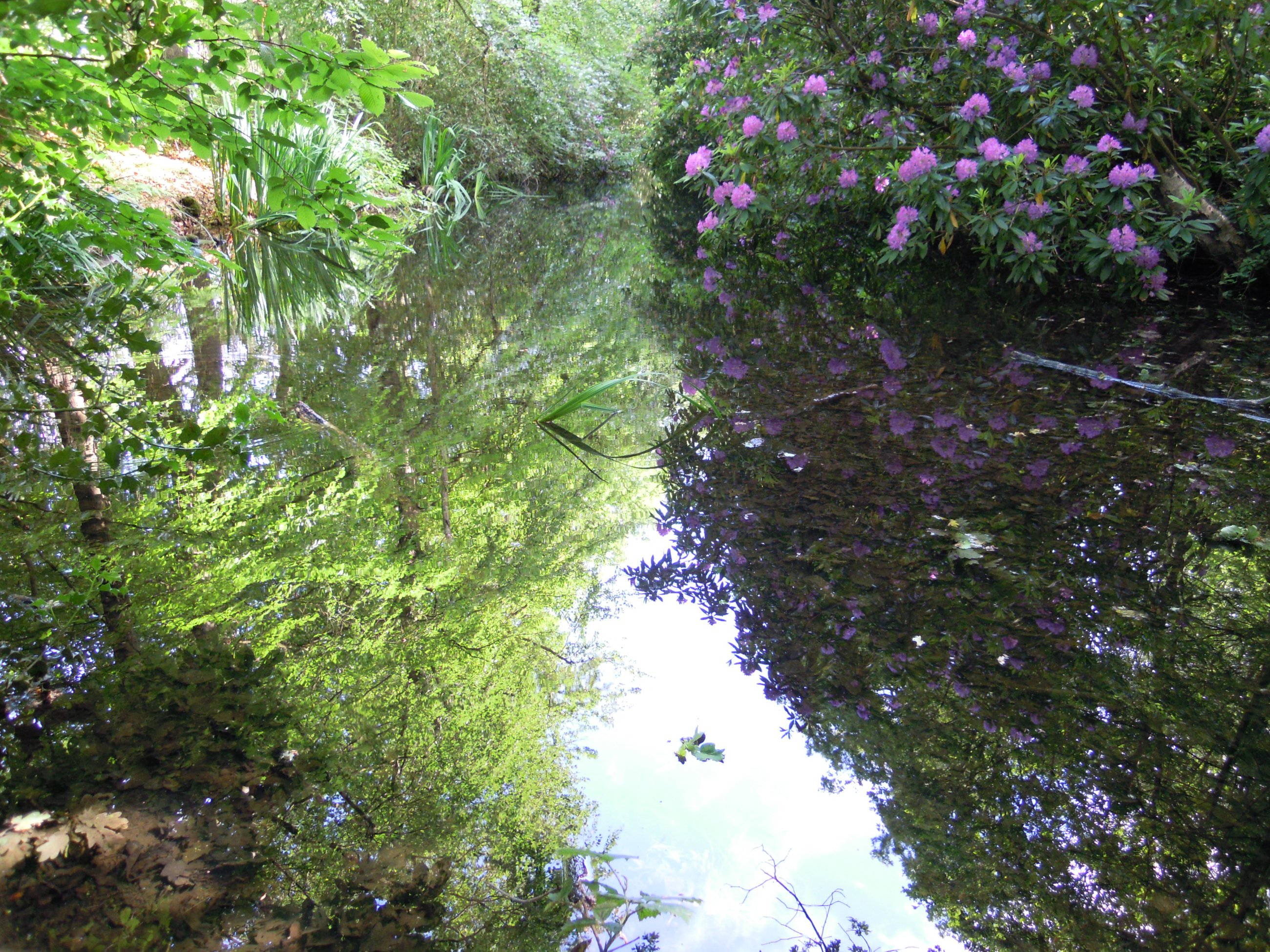 Photograph of the remains of Gilbert's Lake at Grim's Dyke in Harrow Weald, London, England.